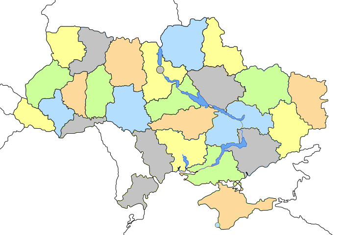 Map of Ukraine Oblasts simple 5 colors, 700px